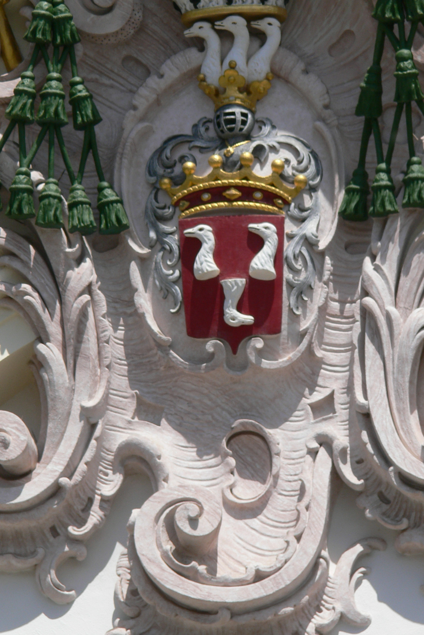 Hradčany ( Prague ). Palace of the archbishop - Coats of arms of archbishop Antonin Prichovsky ( 1760 ).